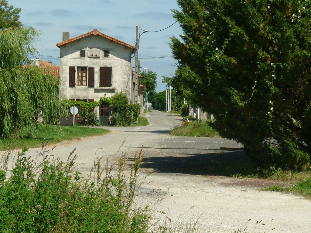 crossroads of two roman ways near Jauldes and Coulgens, Charente, France